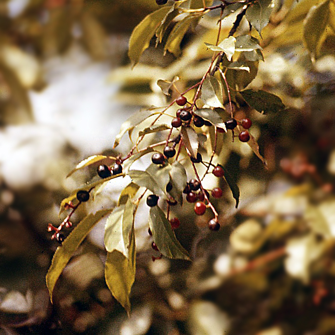 Prunus serotina fruits